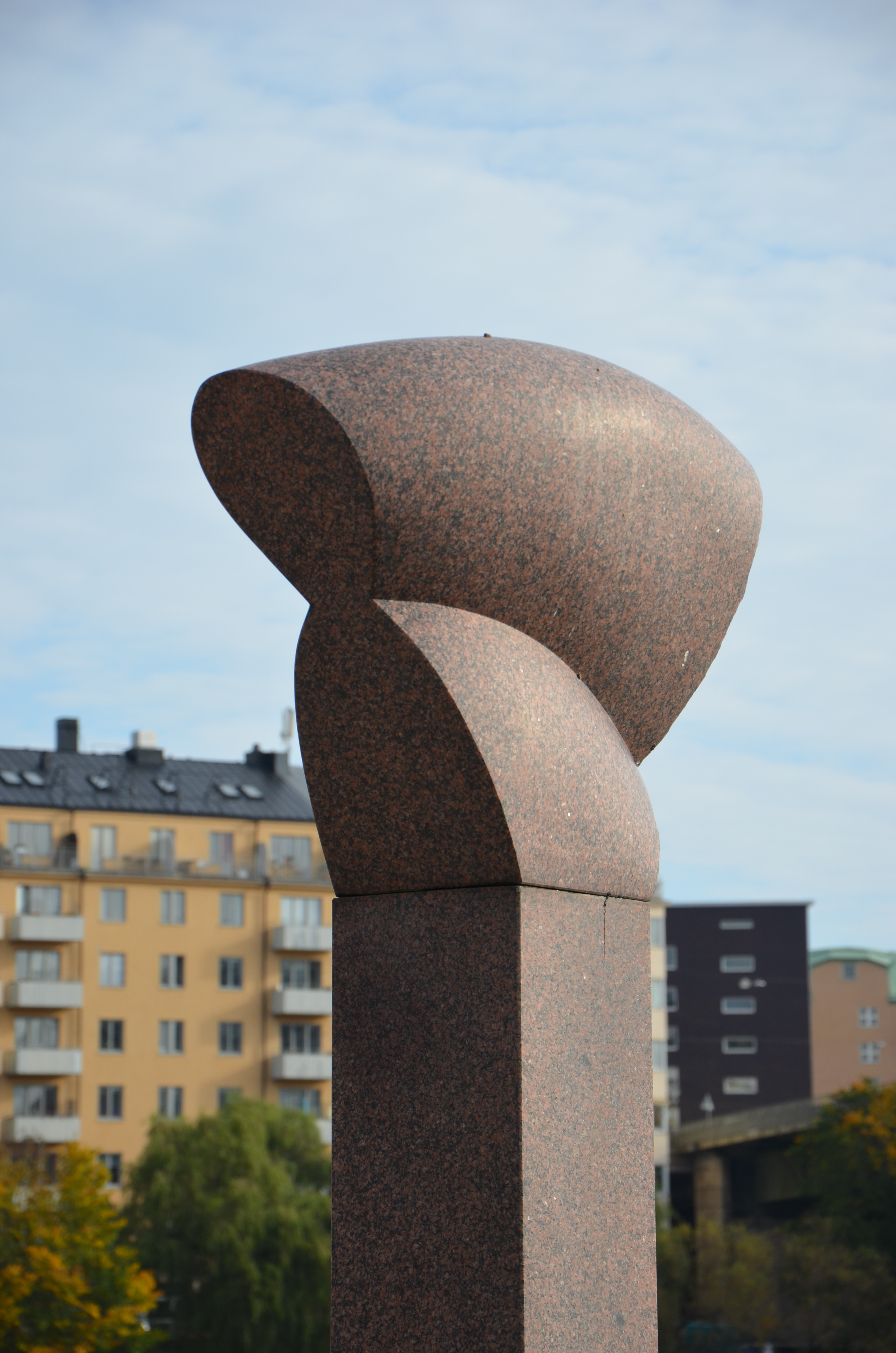 Harry Modins skulptur Snäcka,vätögranit, 2004, Liljeholmsstrand, Stockholm